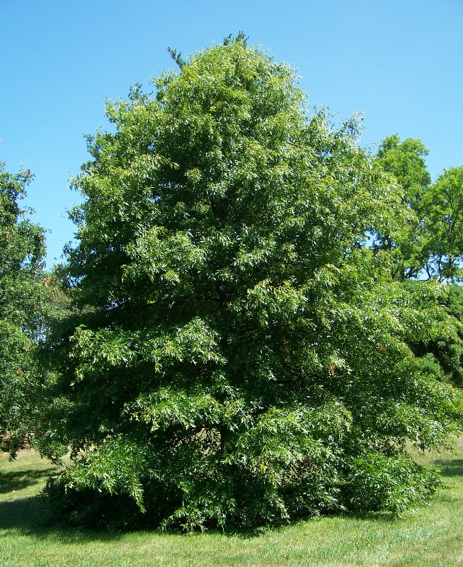 Pin Oak - Quercus palustris. Also commonly called swamp oak, water oak, and swamp Spanish oak. Fagaceae -- Beech family. 22-year-old specimen at The Morton Arboretum, Lisle, Illinois, USA.